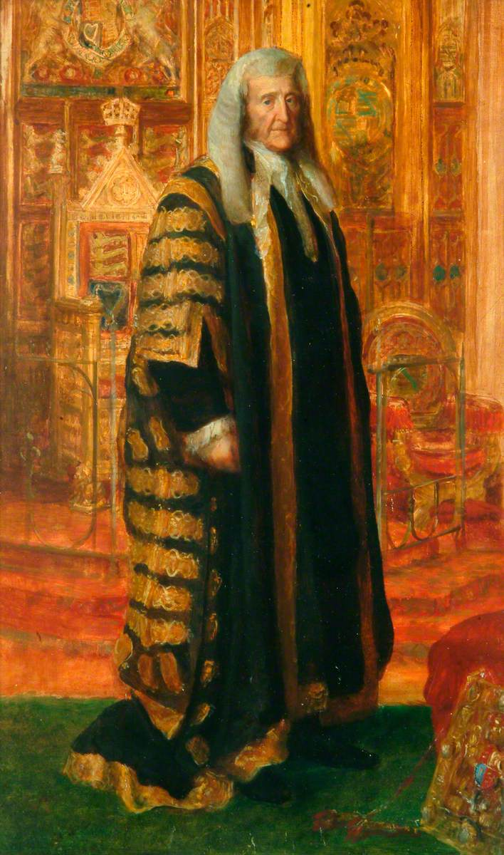 Portrait of John Campbell, 1st Baron Campbell, Lord Chancellor